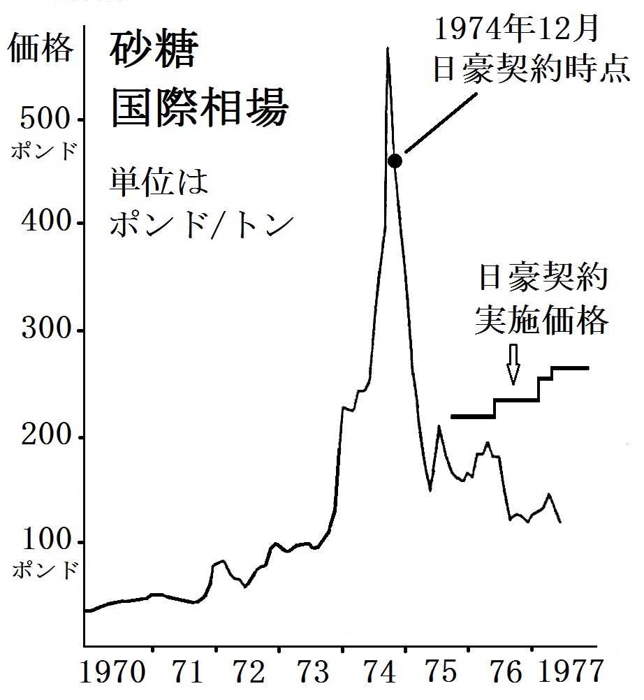 International sugar prices (1970-1977)and Japan - Australia contract sugar price